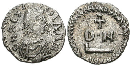 AR 50 Denarii (15mm, 1.11 g, 3h) minted in Carthage in 530-534 AD by the Vandal king Gelimer. Obverse: D N REX G-EILAMIR, diademed, draped, and cuirassed bust, all within wreath. Reverse: D • N / L (mark of value) in two lines, cross above, all within wreath.